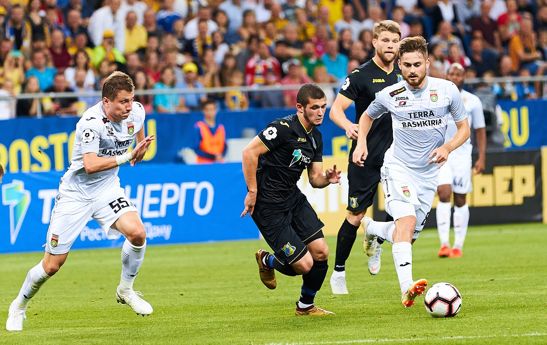 Ayaz Guliyev, Cătălin Carp, Jemal Tabidze